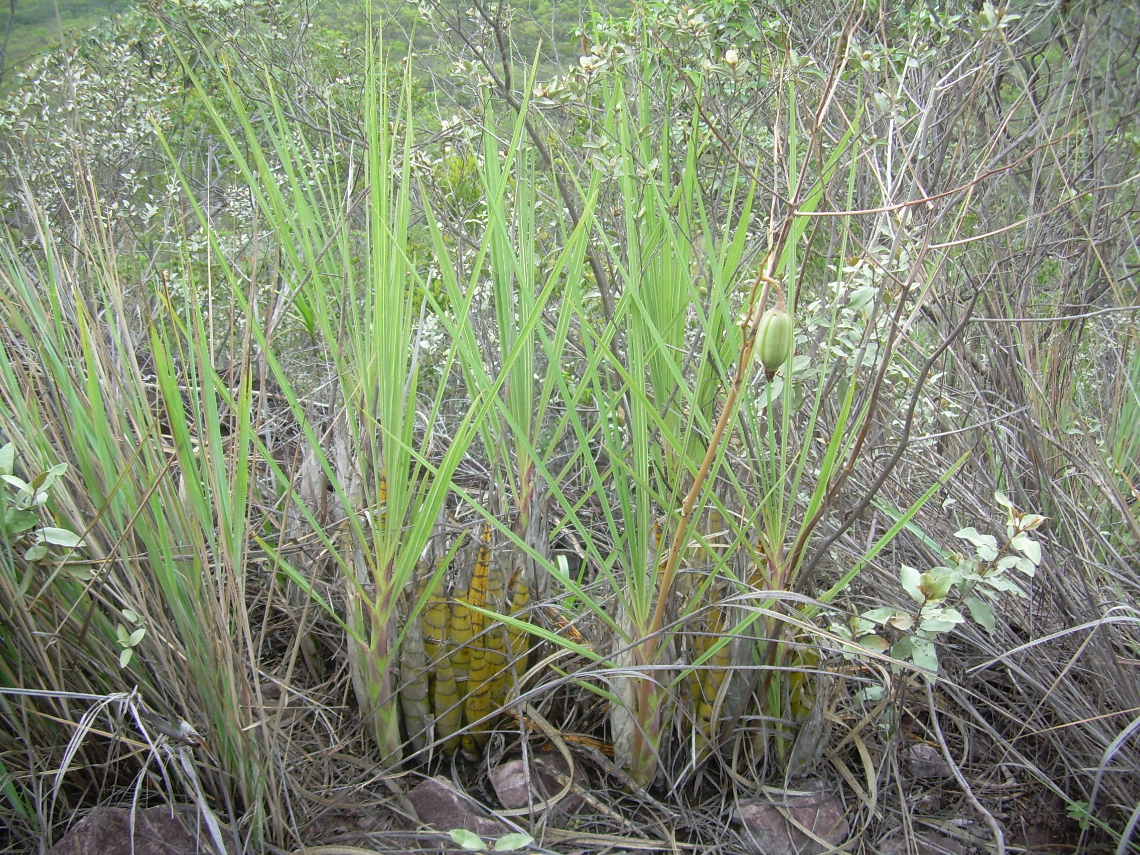 Cyrtopodium aliciae in situ